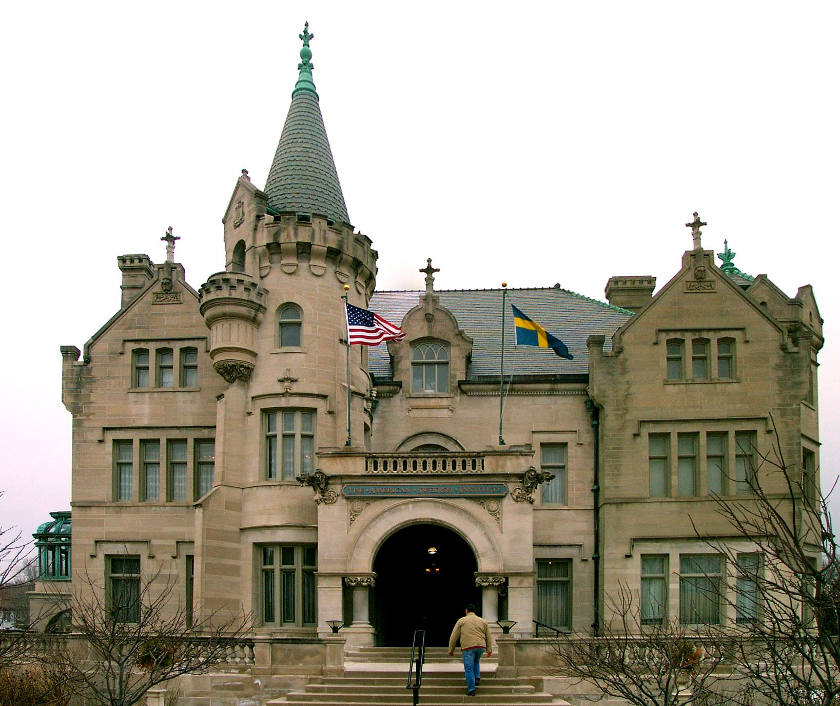 American Swedish Institute, Minneapolis, Minnesota. Image is cropped.William entering the Swedish-American Institute